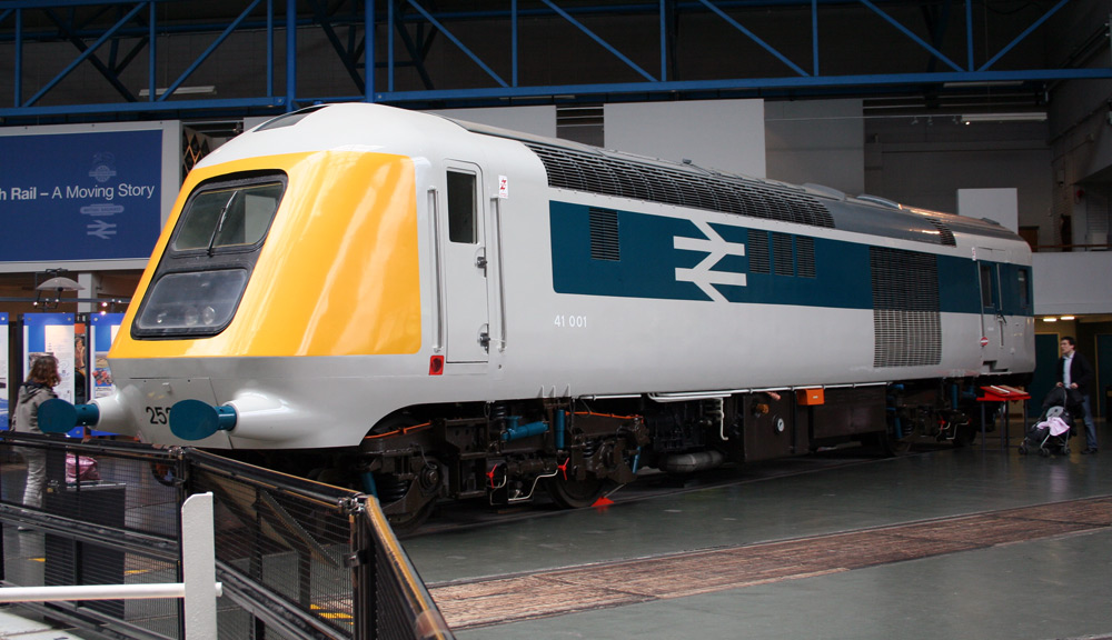 Prototype of the British High Speed Train National Railway Museum, York By ChrisO, 27 May 2006